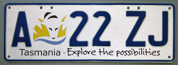 2009 Tasmanian number plate.